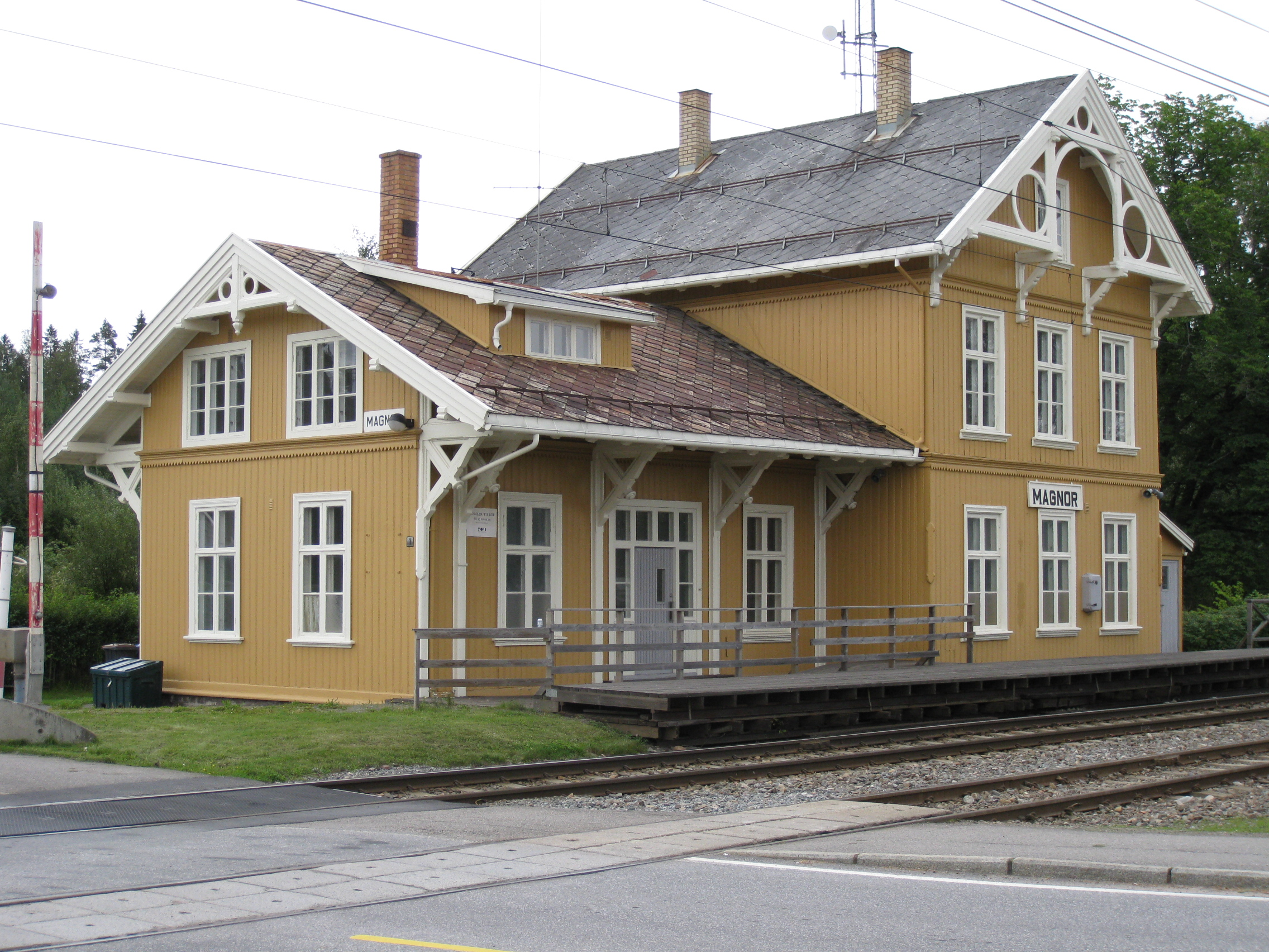 Magnor station, Norway